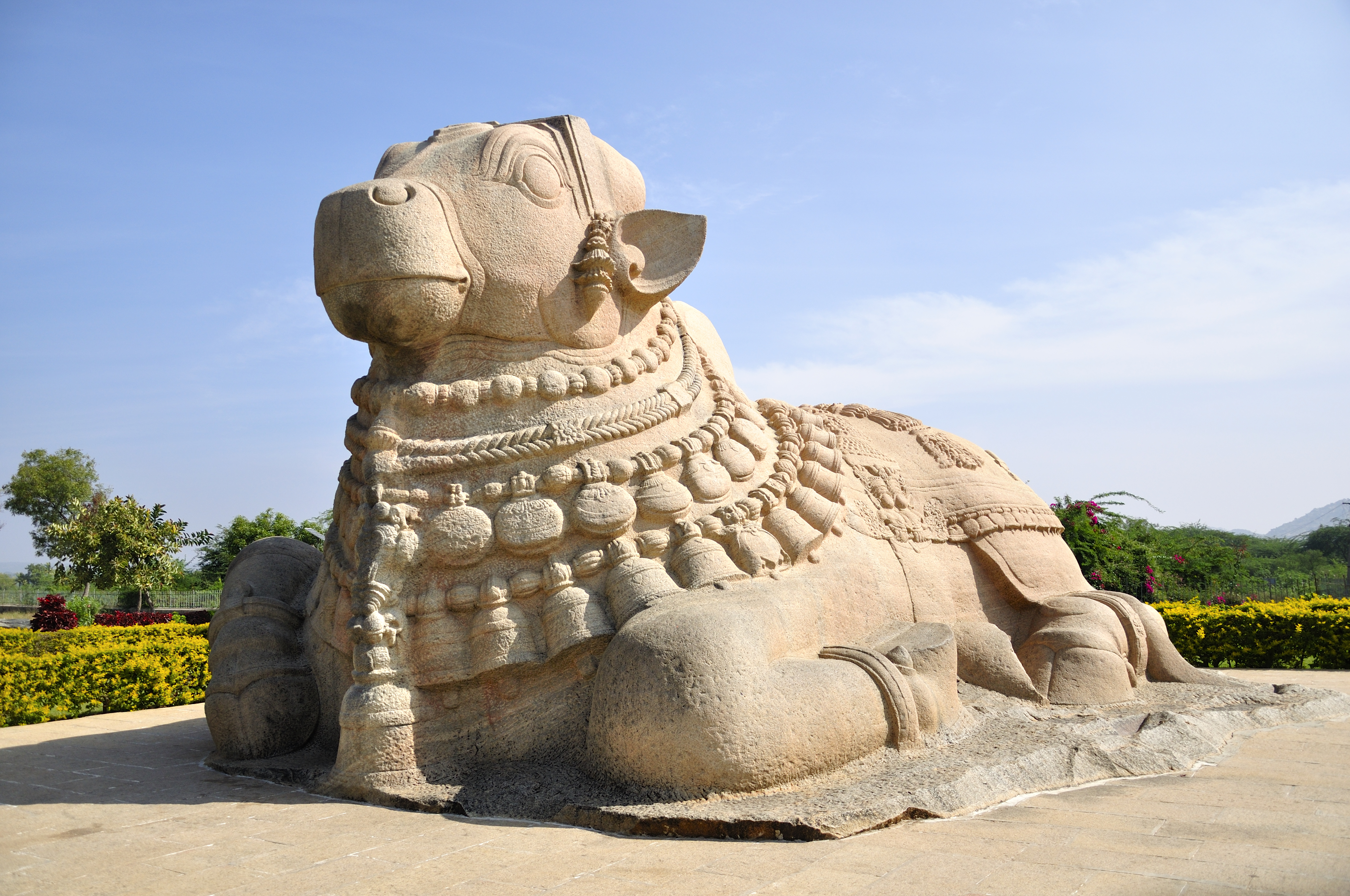 Basavannah temple